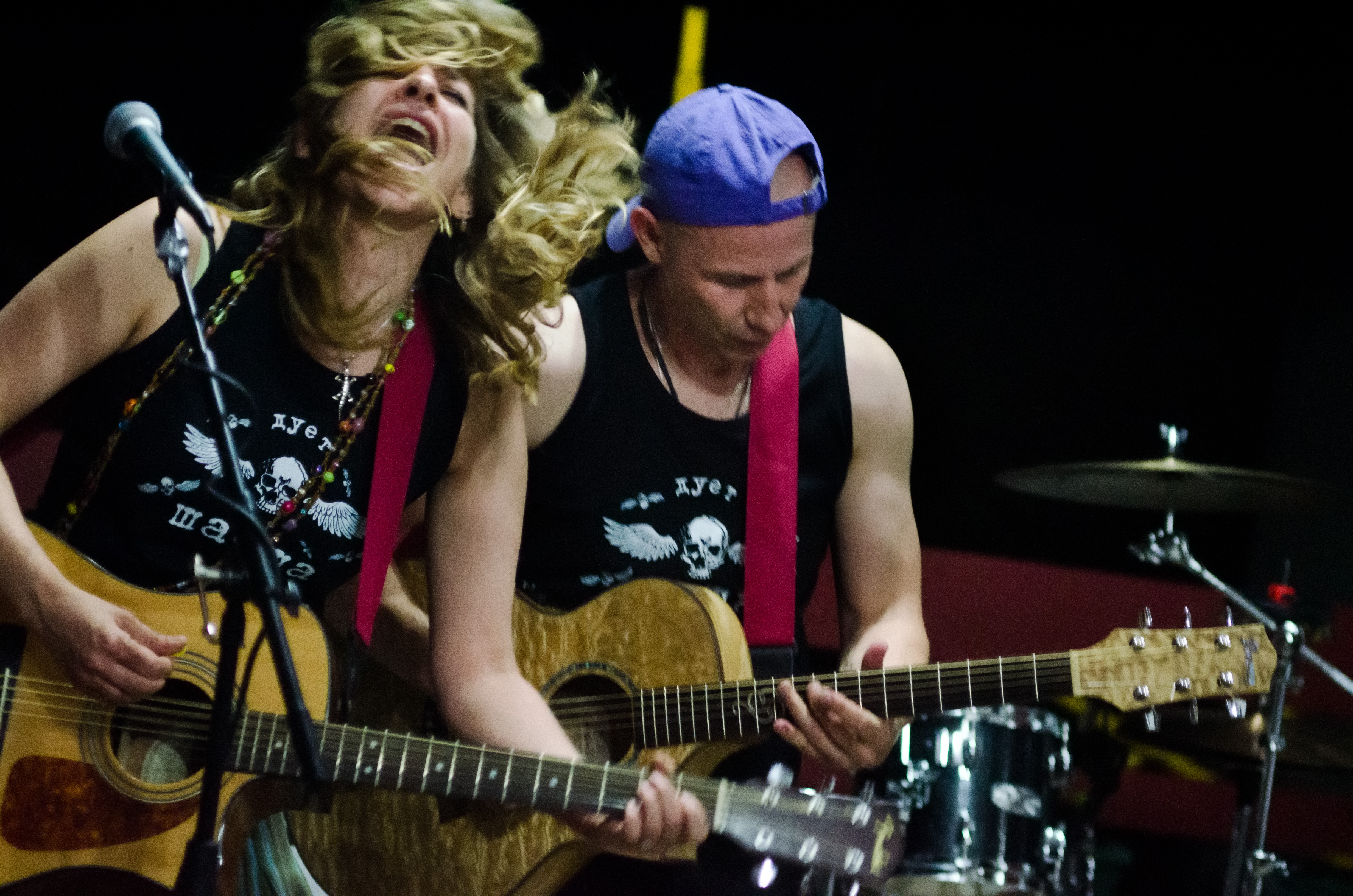 The Sha-Sha duo playing at Panichishte Rock Fest 2012